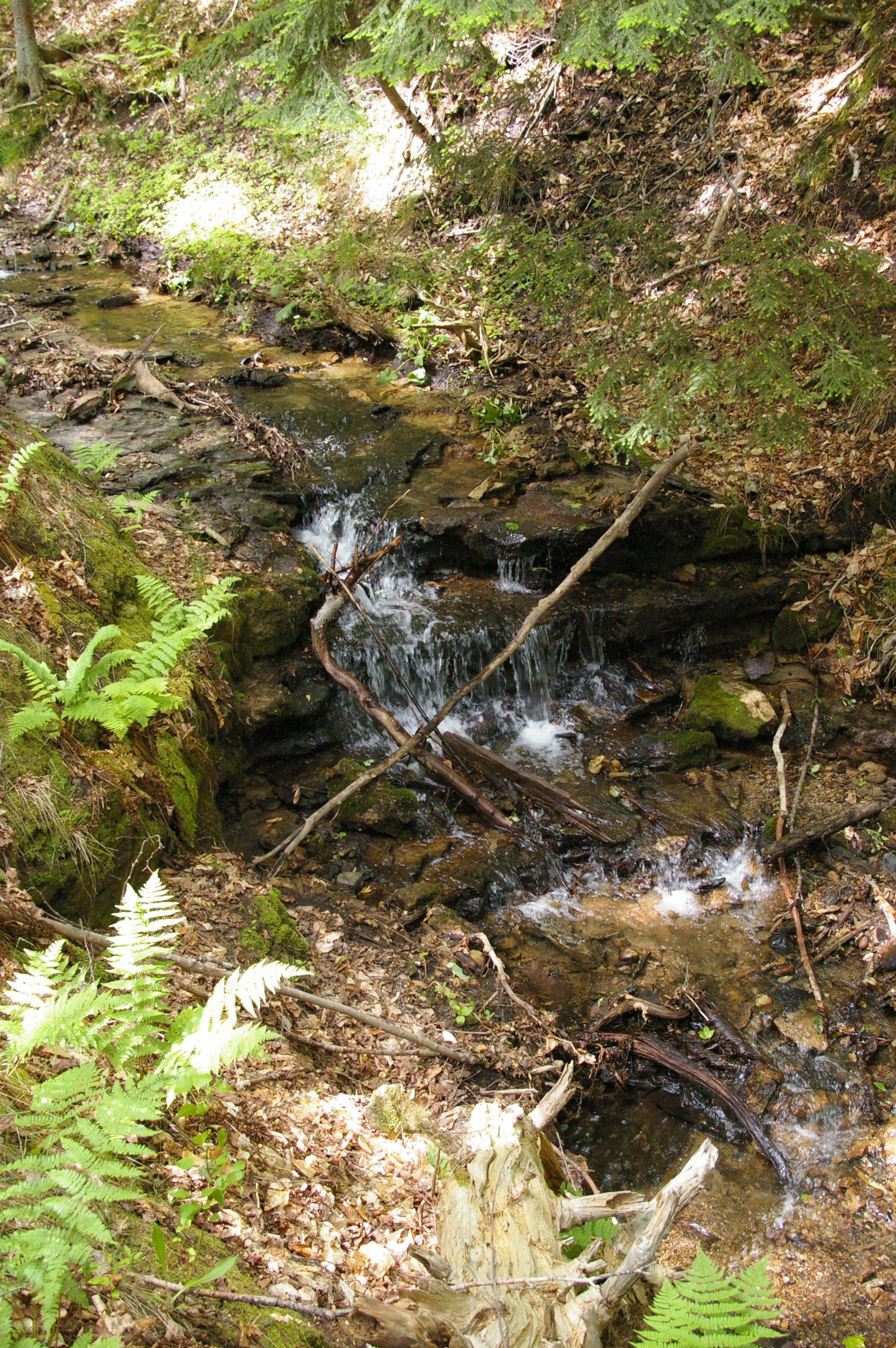 Tannery Creek above Tannery Falls near Munising, MI